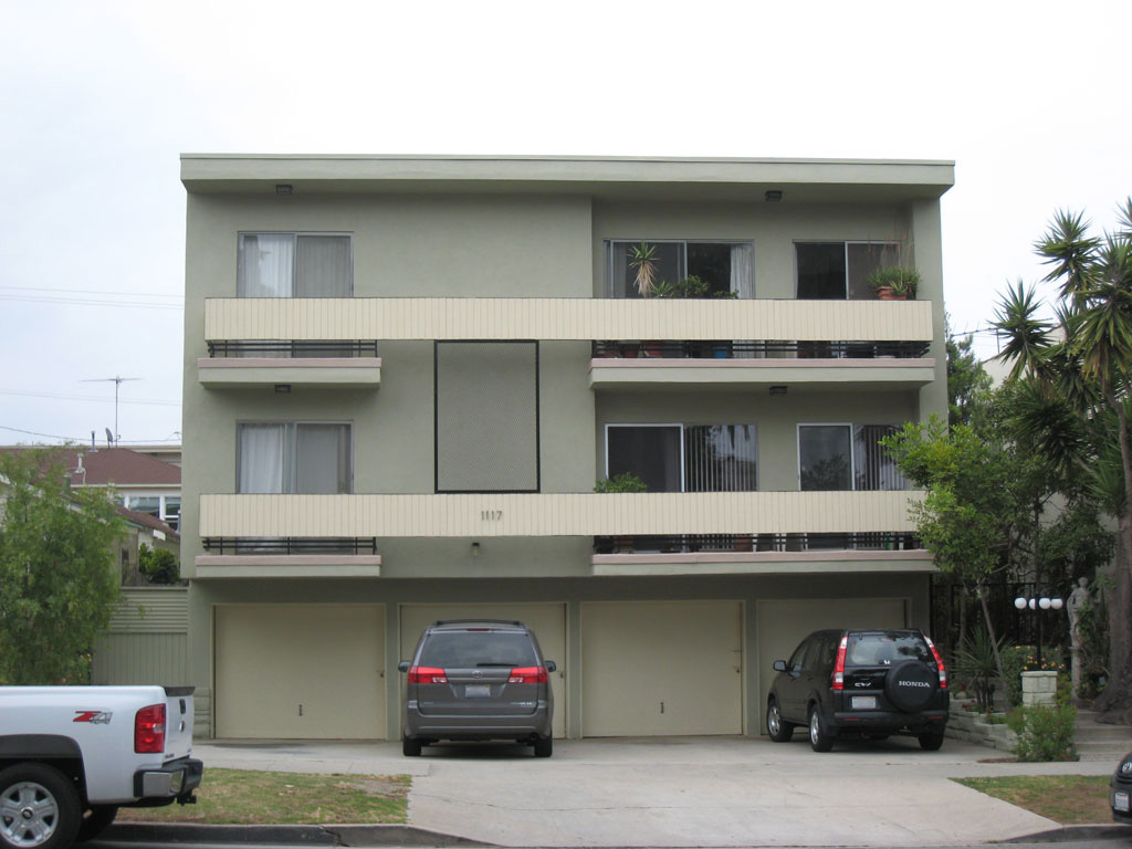 Example of "dingbat" apartment facade.